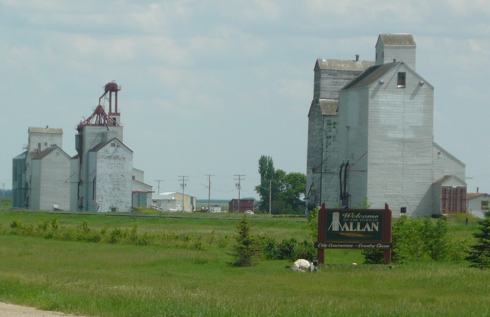 Grain elevators at Allan, Saskatchewan, Canada, as seen from 1st Avenue.